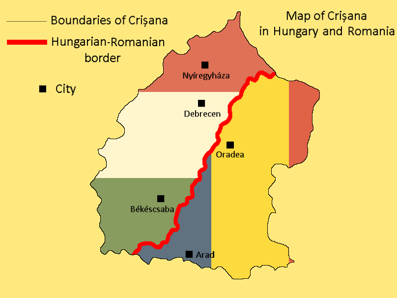 Map of Crişana